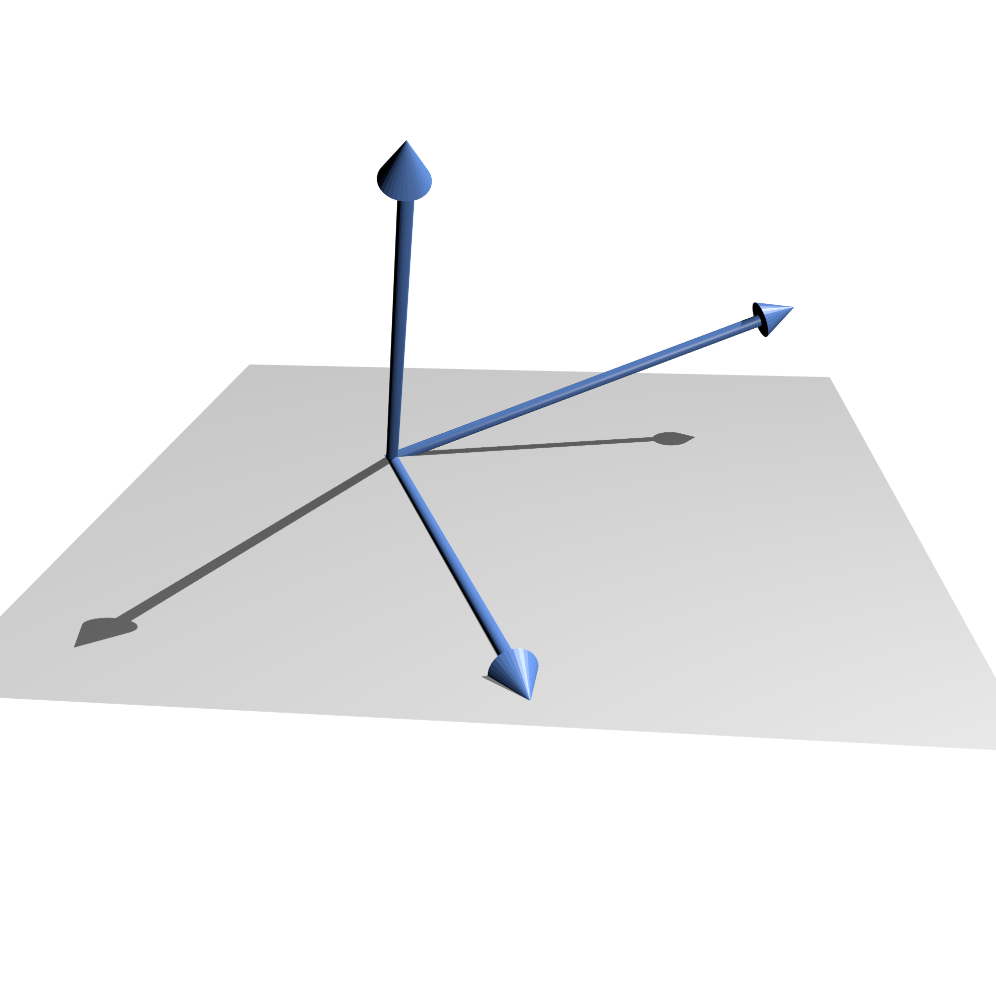 Linearly independent vectors in R3 - 3D Visualisation